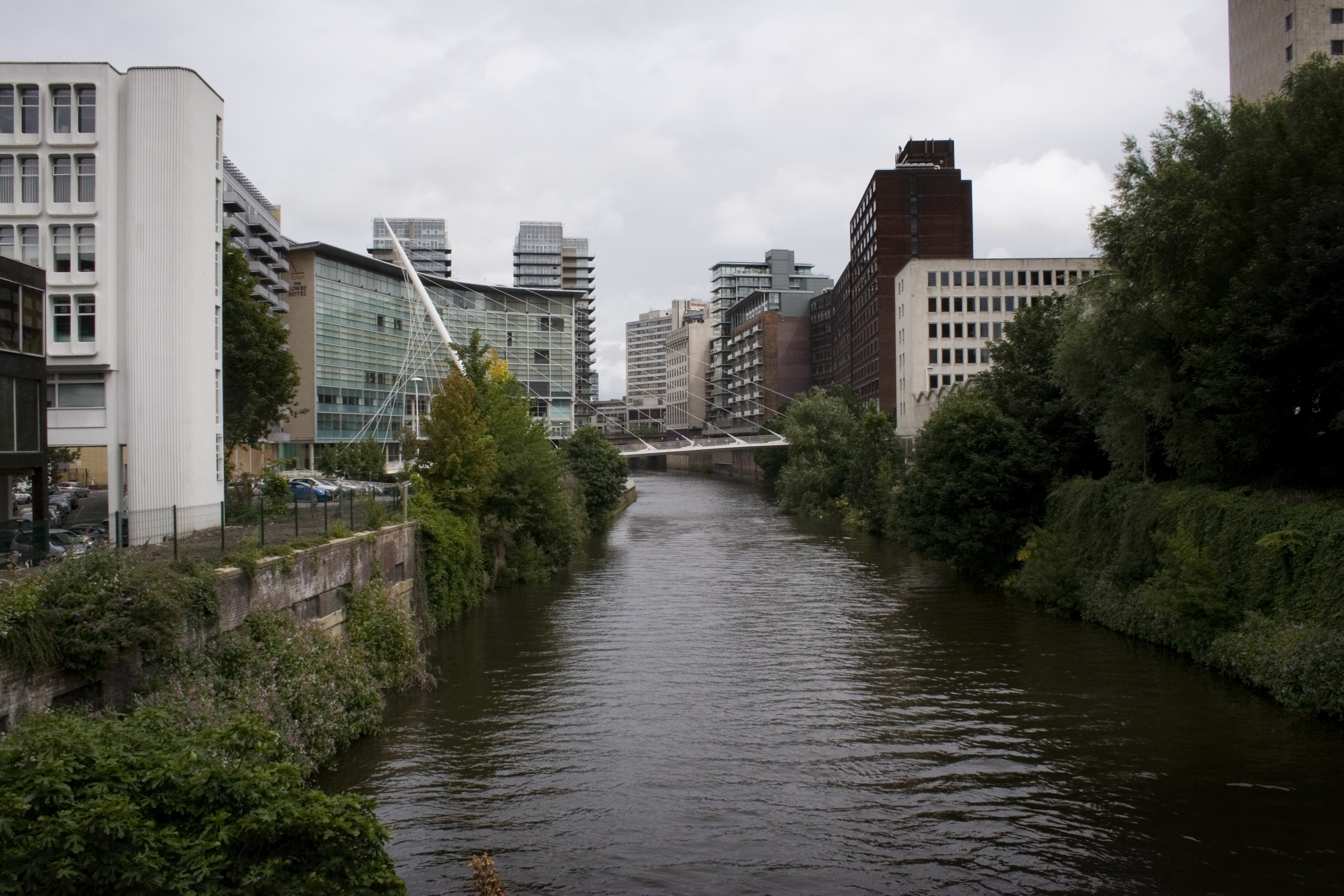 The Irwell heading toward the photographer, Salford to the northwest (left), Manchester to the southeast (right).